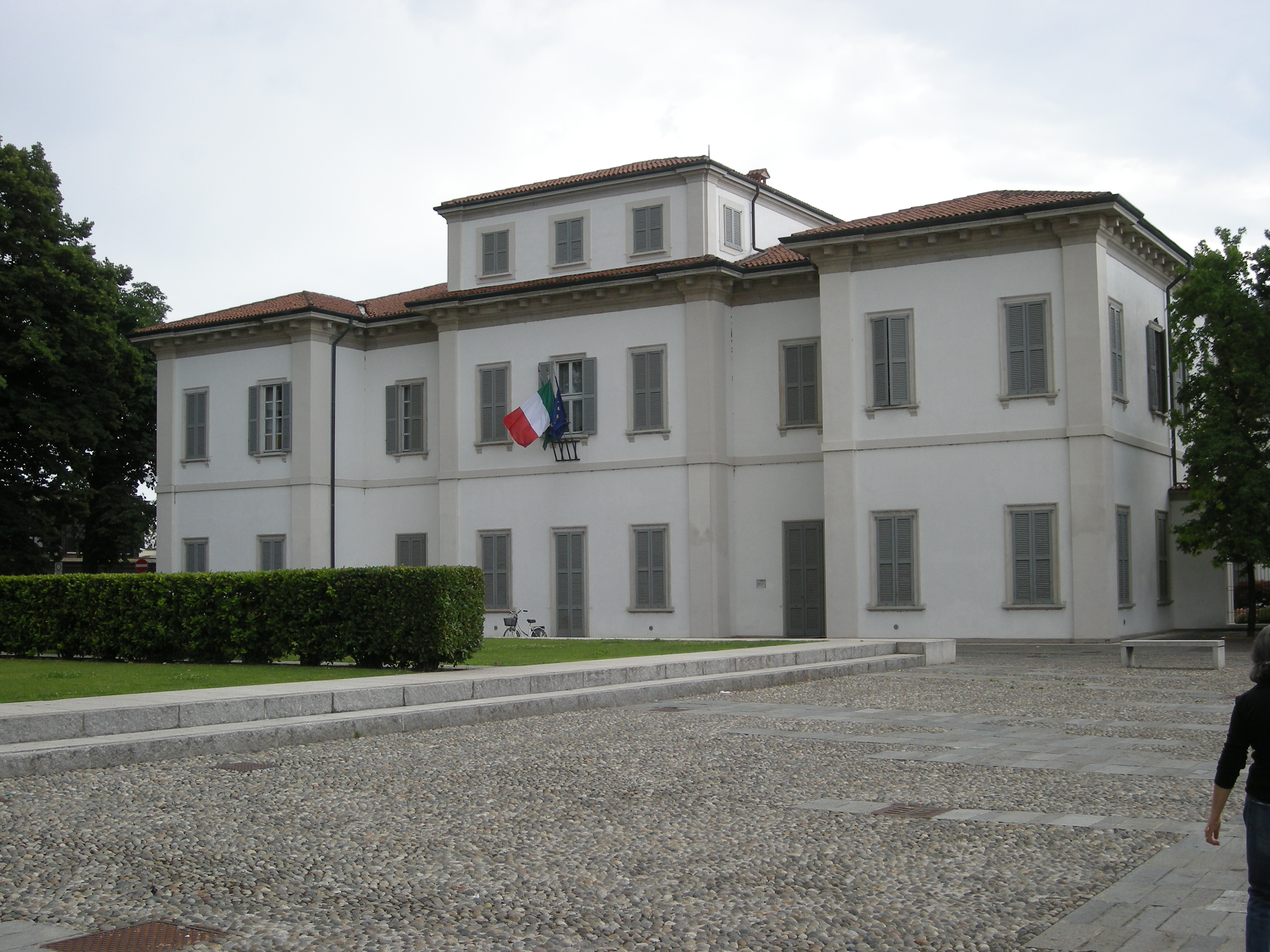 City hall - Cernusco sul Naviglio (MI) Italy